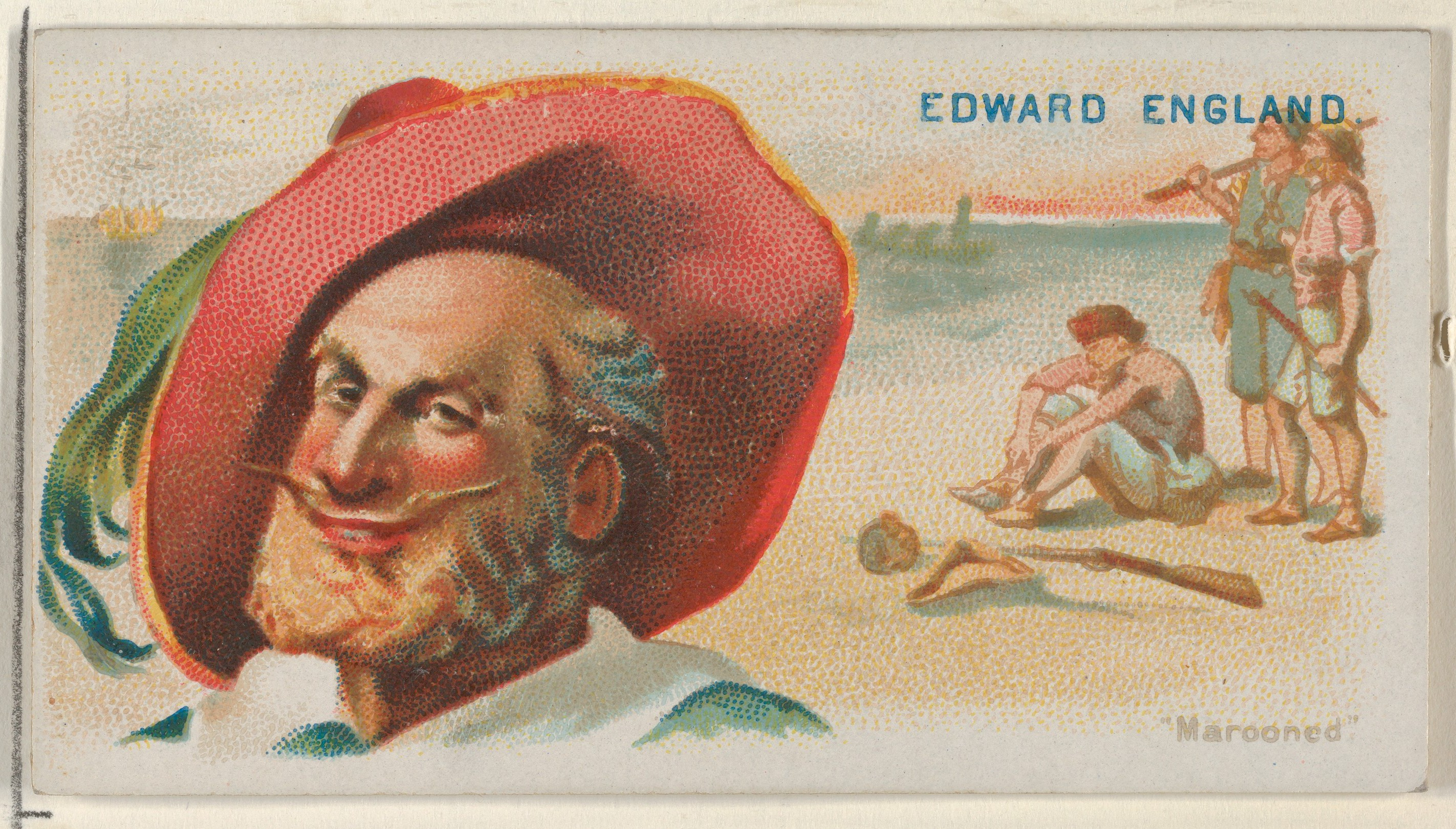 Print; Prints